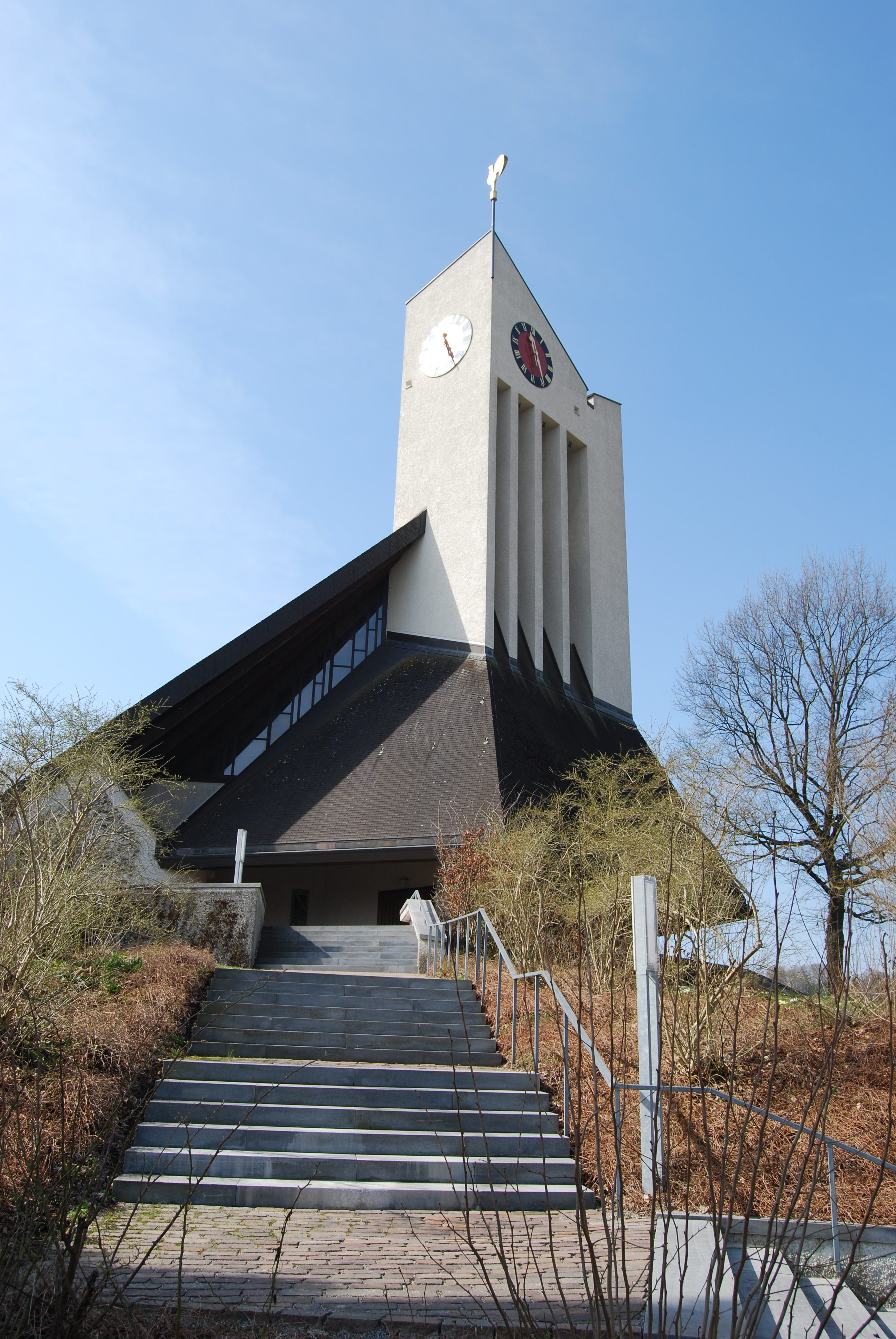 Church of Wil ZH, canton of Zürich, SwitzerlandEsperanto: Preĝejo de Wil ZH, Kantono Zürich, Svislando